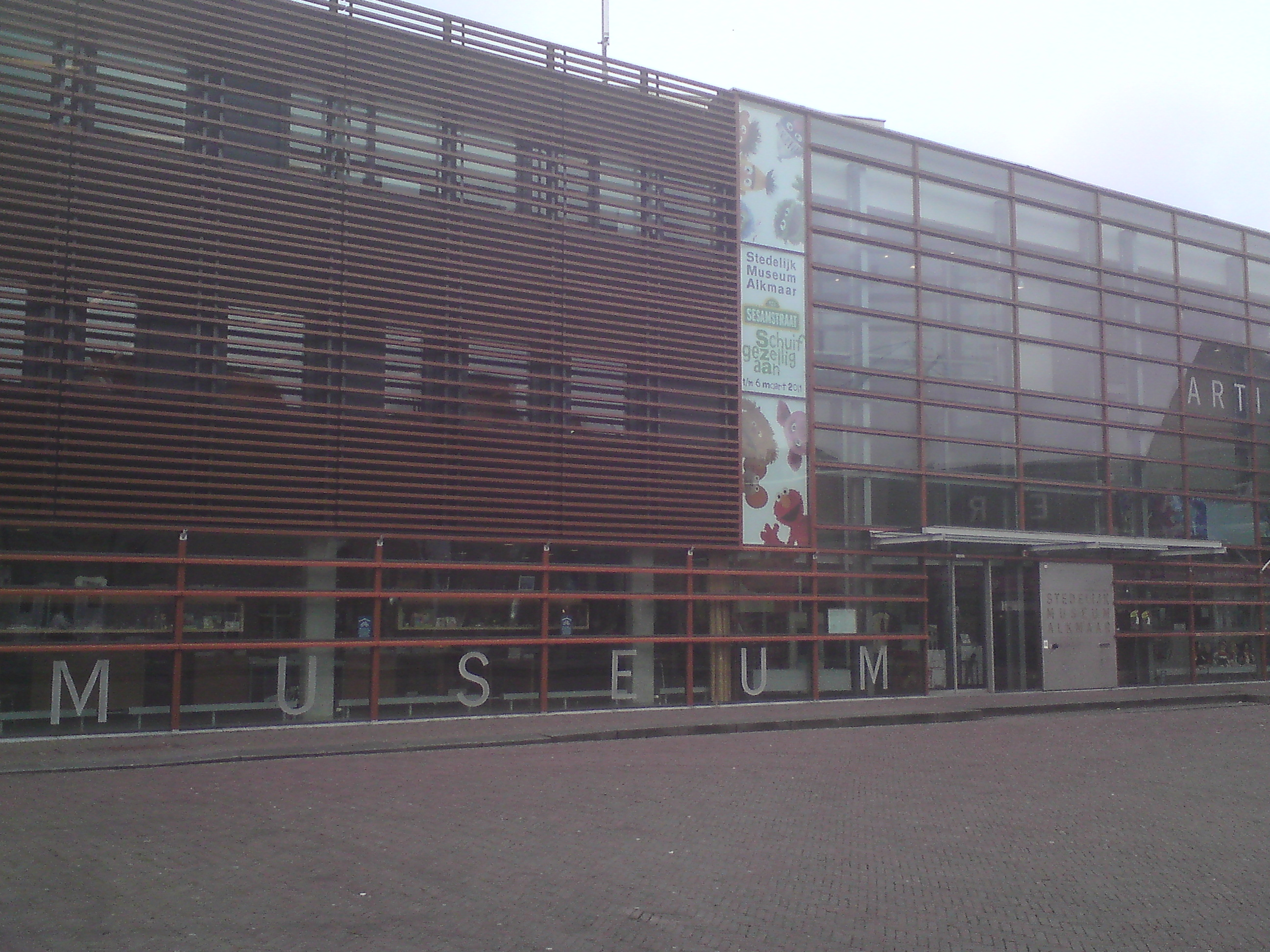 Facade of the Stedelijk Museum Alkmaar, Alkmaar, the Netherlands